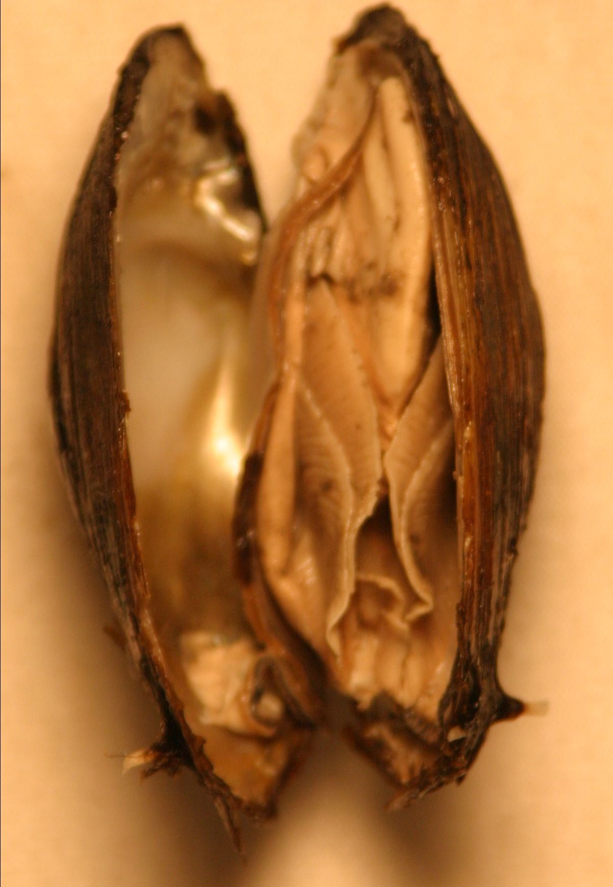 Internal view of the Giant Floater muscle